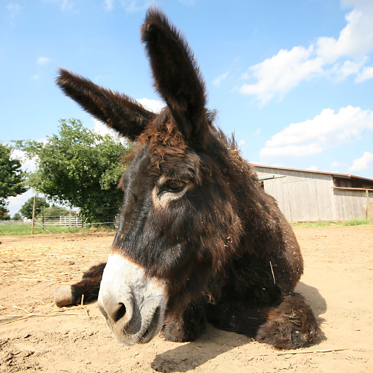 25 year old female catalan donkey »Cleo«. Cleo belongs to the Nature Life Ranch in Schwabenheim, Germany. Details: Head and Ears